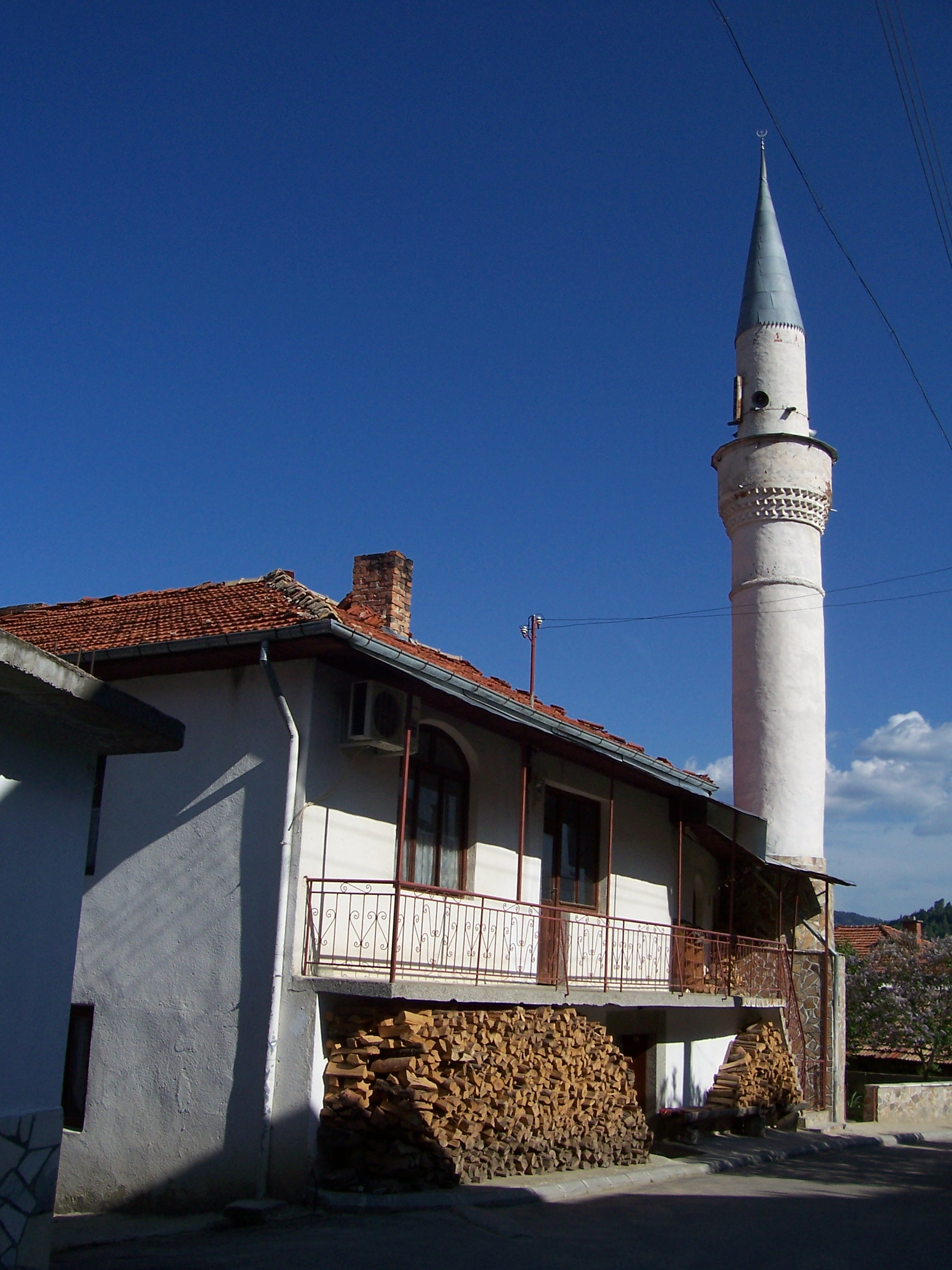 The Mosque in the village of Vaklinovo.